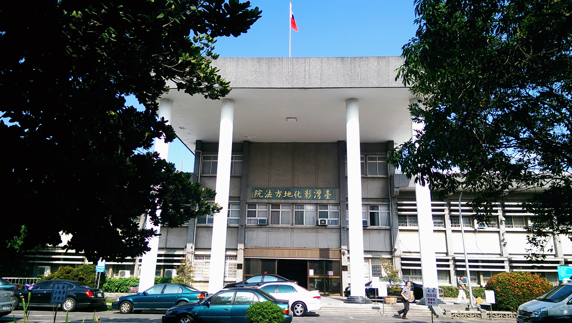 Taiwan Changhua District Court中文（台灣）: 臺灣彰化地方法院